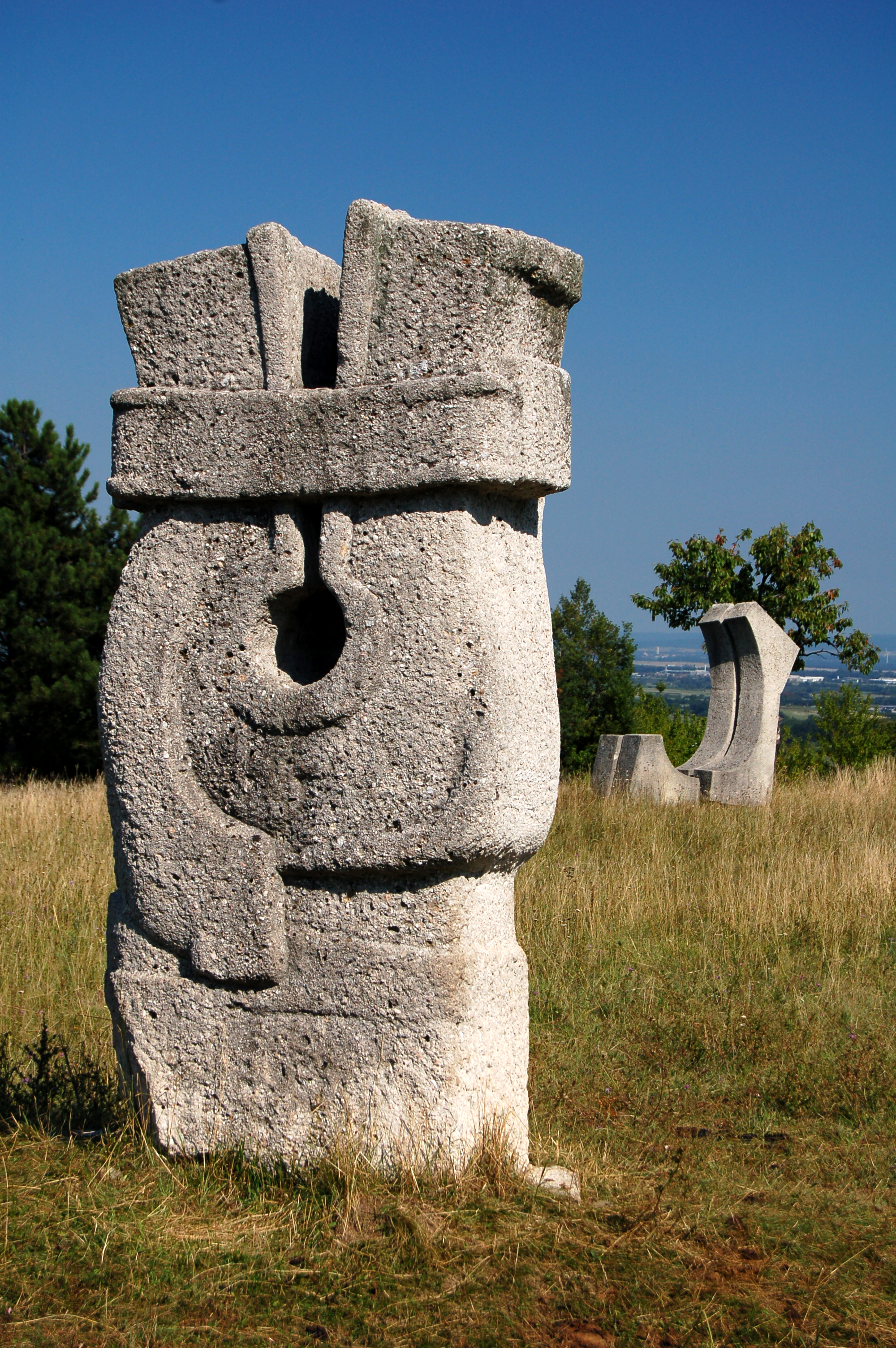 Symposion Lindabrunn, sculpture by Takera Narita, Japan 1968; in the background Fumihiko Takashima, Japan 1972